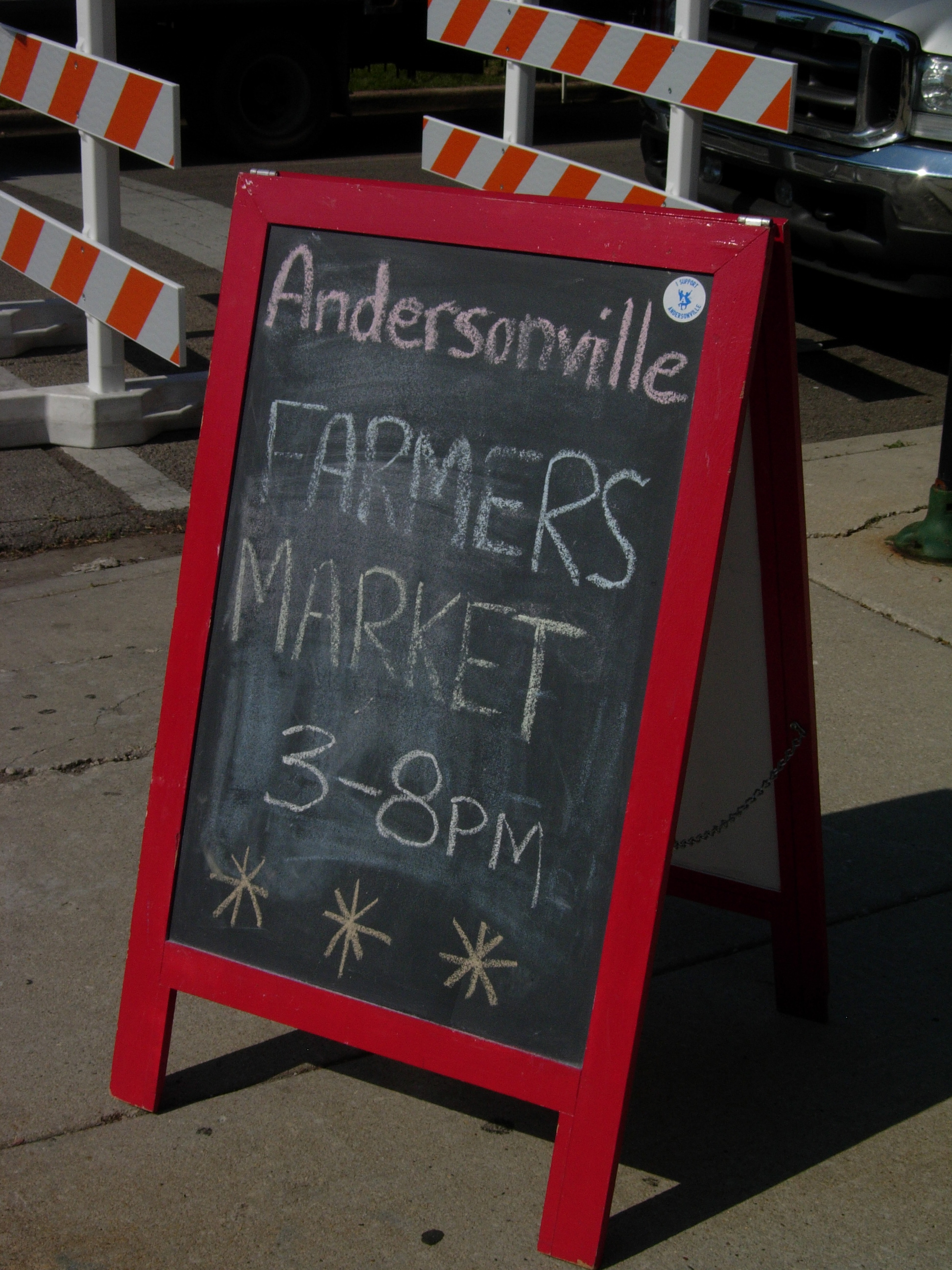 A chalk sign advertising the Farmers Market in Chicago's Andersonville neighborhood.